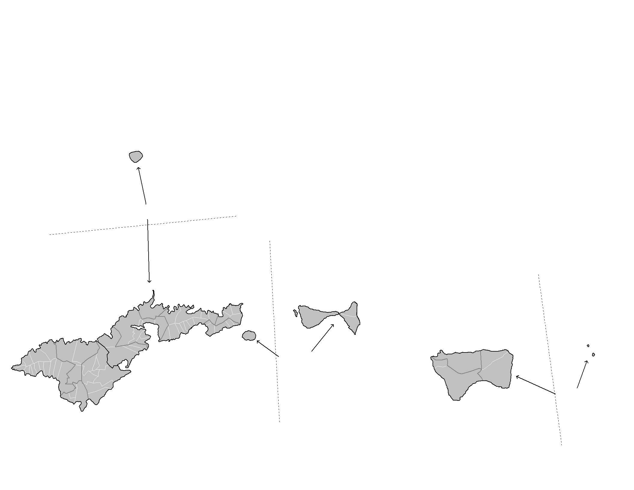 Map of the administrative divisions of American Samoa. Map is to scale, with distances between the various islands displayed. Created by Rarelibra 17:29, 11 January 2008 (UTC) for public domain use, using MapInfo Professional v8.5 and various mapping resources.